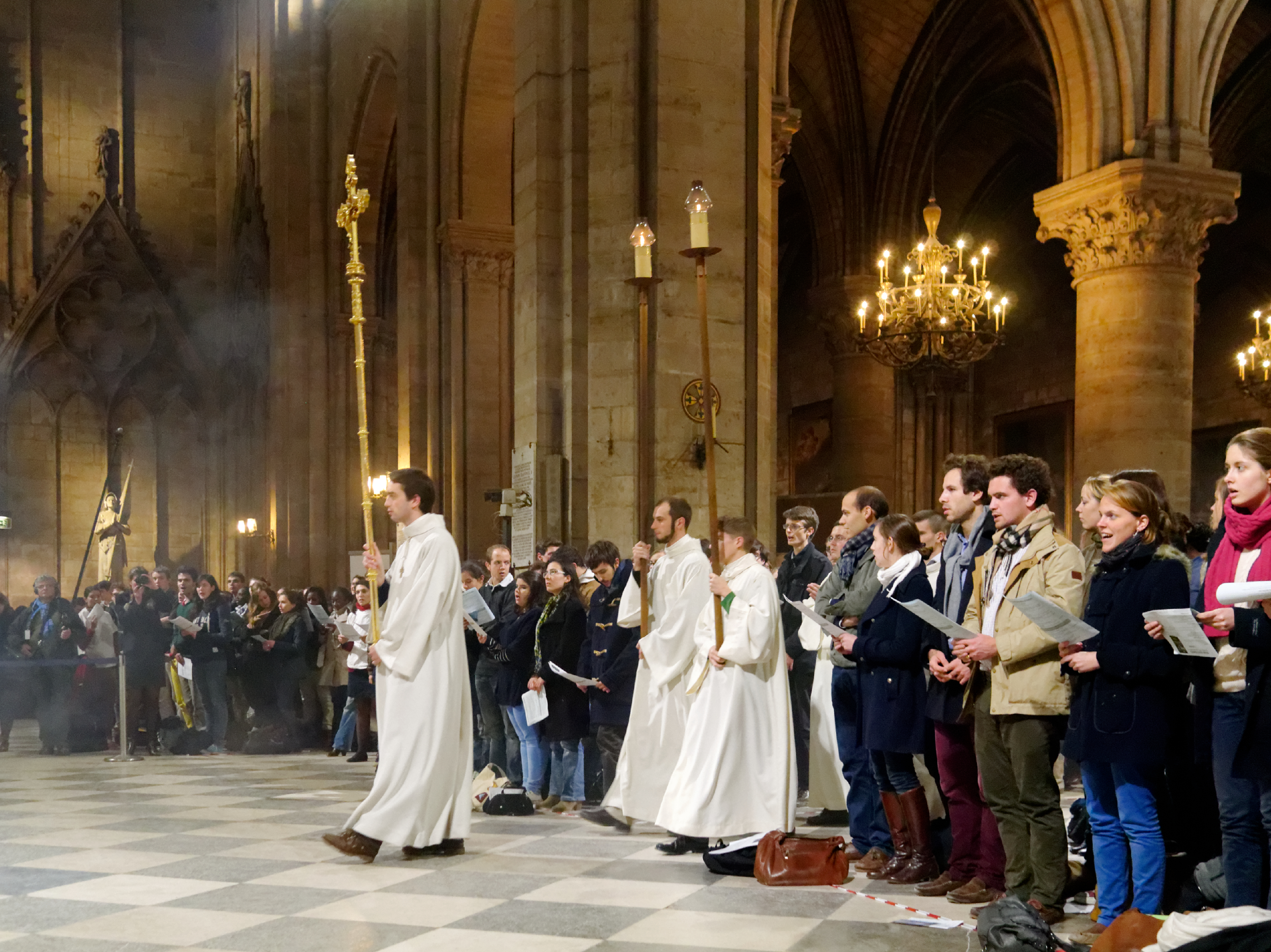 Entrance procession: Île-de-France students' mass in Cathedral Notre Dame de Paris celebrated by Cardinal André Vingt-Trois.